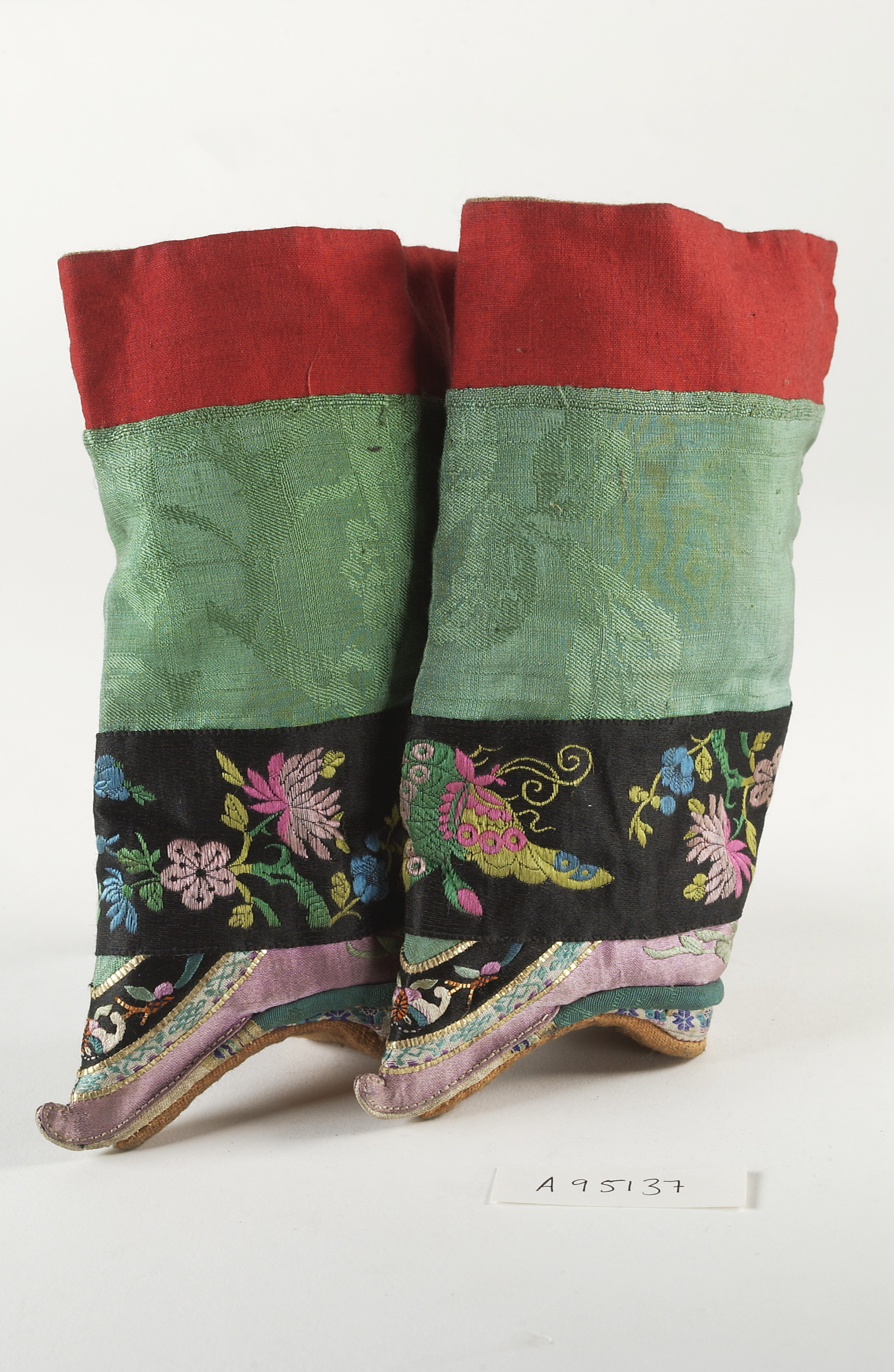 A pair of Chinese shoes for bound 'lily' feet Wellcome Images Keywords: Foot-binding; Beauty; Chinese; Asian Continental Ancestry Group; Bound; Feet; Traditional; Footwear; Embroidery; Foot; China; Clothing